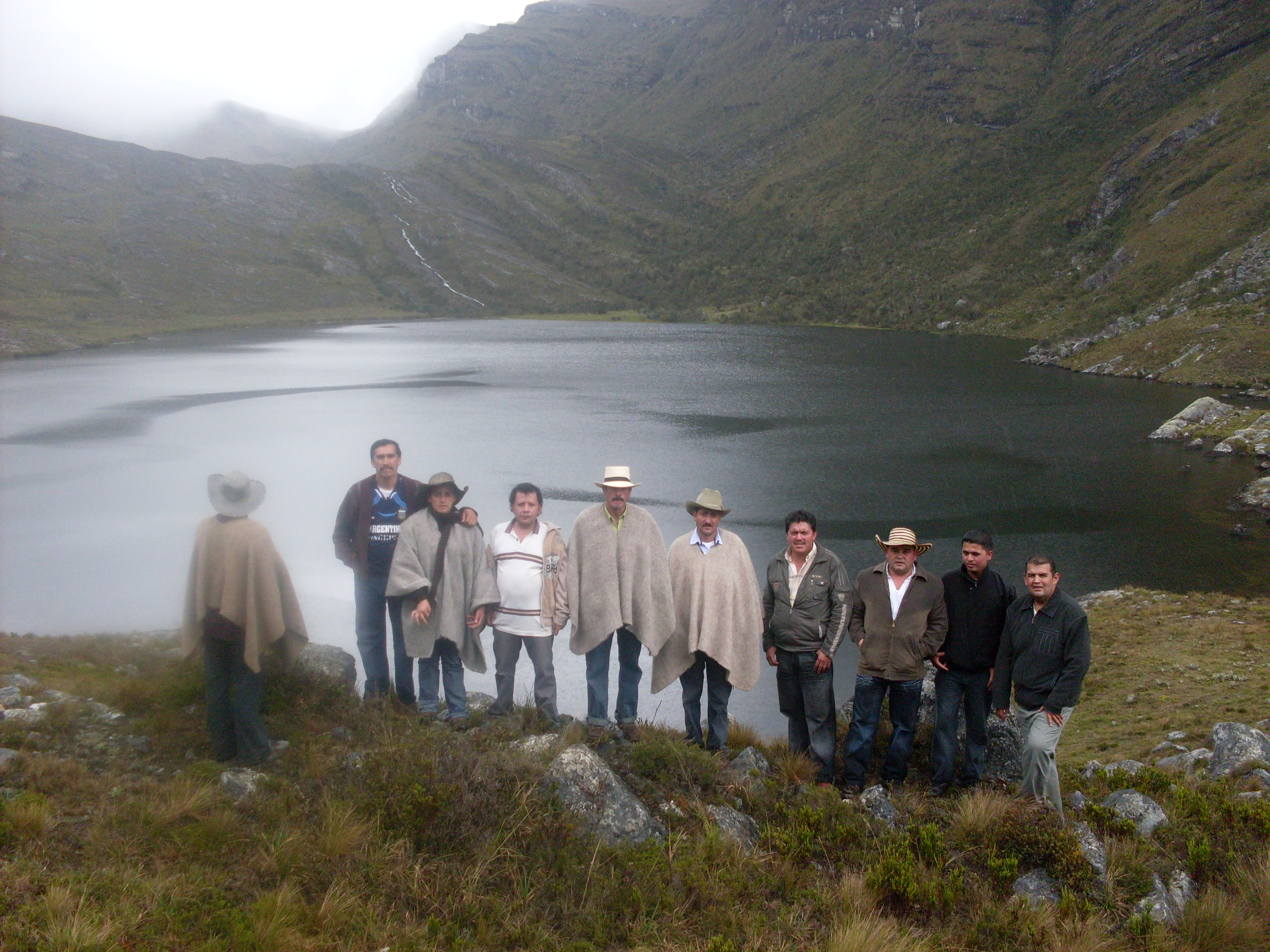 Photography of the lagoon arriviatada of the municipality of conception santander